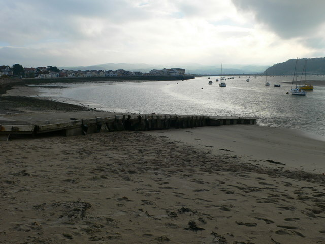 The beach at Deganwy The Conwy estuary, looking south towards Conwy.